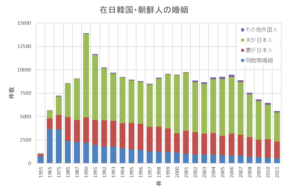 Marriage of Koreans in Japan